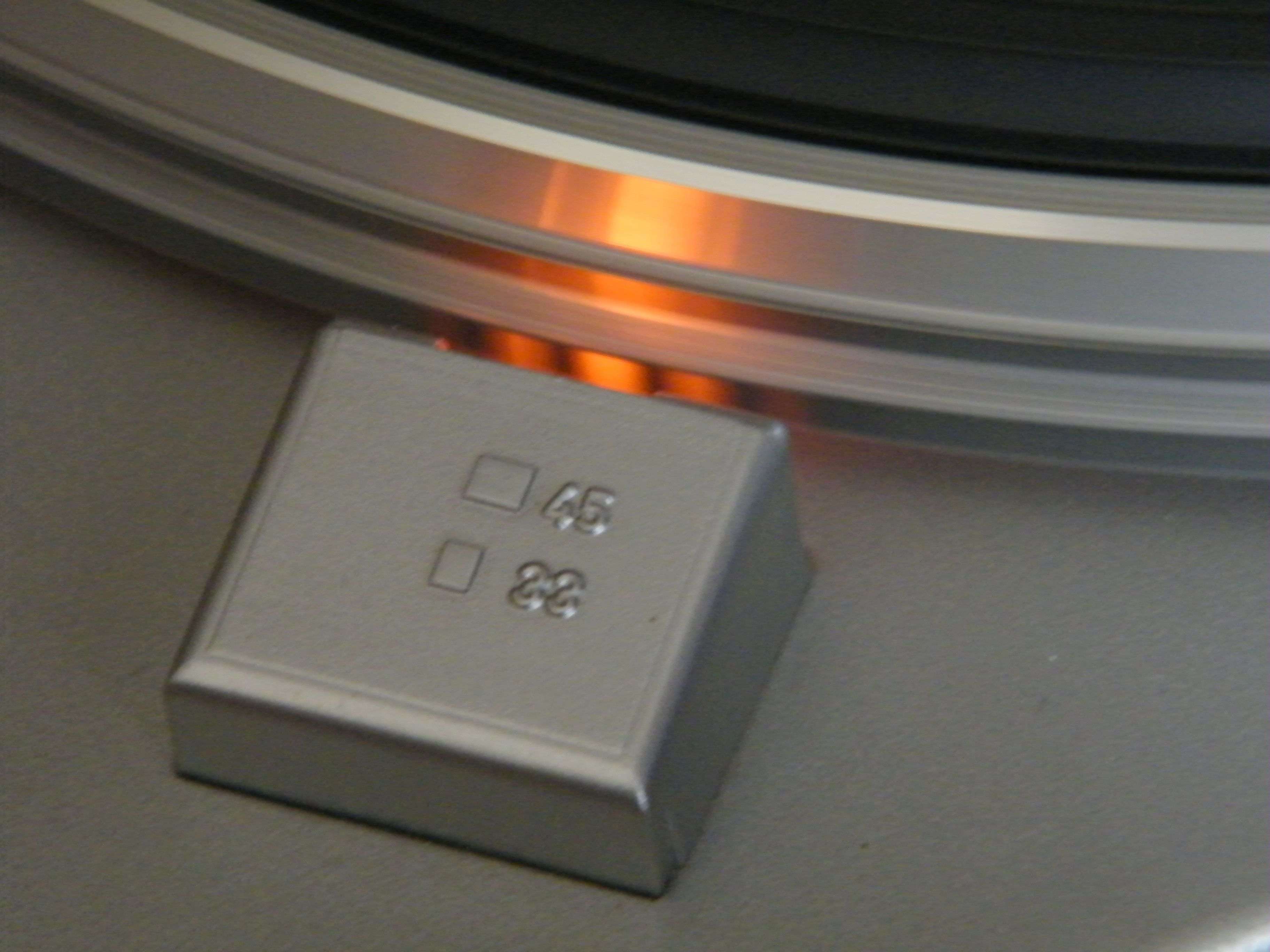 33-speed electronic strobe